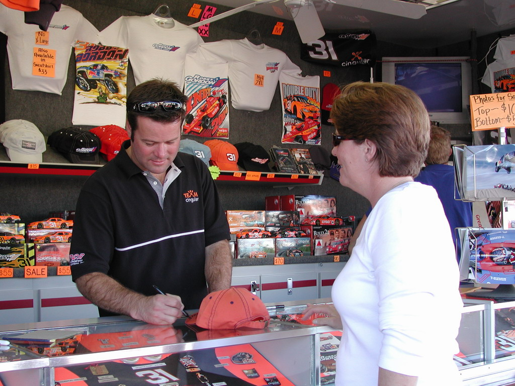 Robbie Gordon signing autographis from his trailer